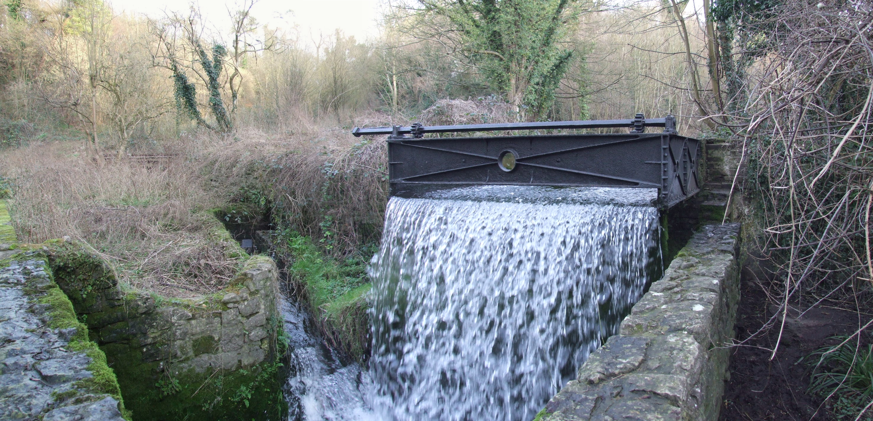 Tovil is 1km south west or upstream of the Archbishops palace, Maidstone in Kent. The Loose Stream flows through the village before it is culverted and joins the River Medway. There are many springs in the area. . Lower Chrisbook Mill had an overshot wheel. Water falling into the wheelpit